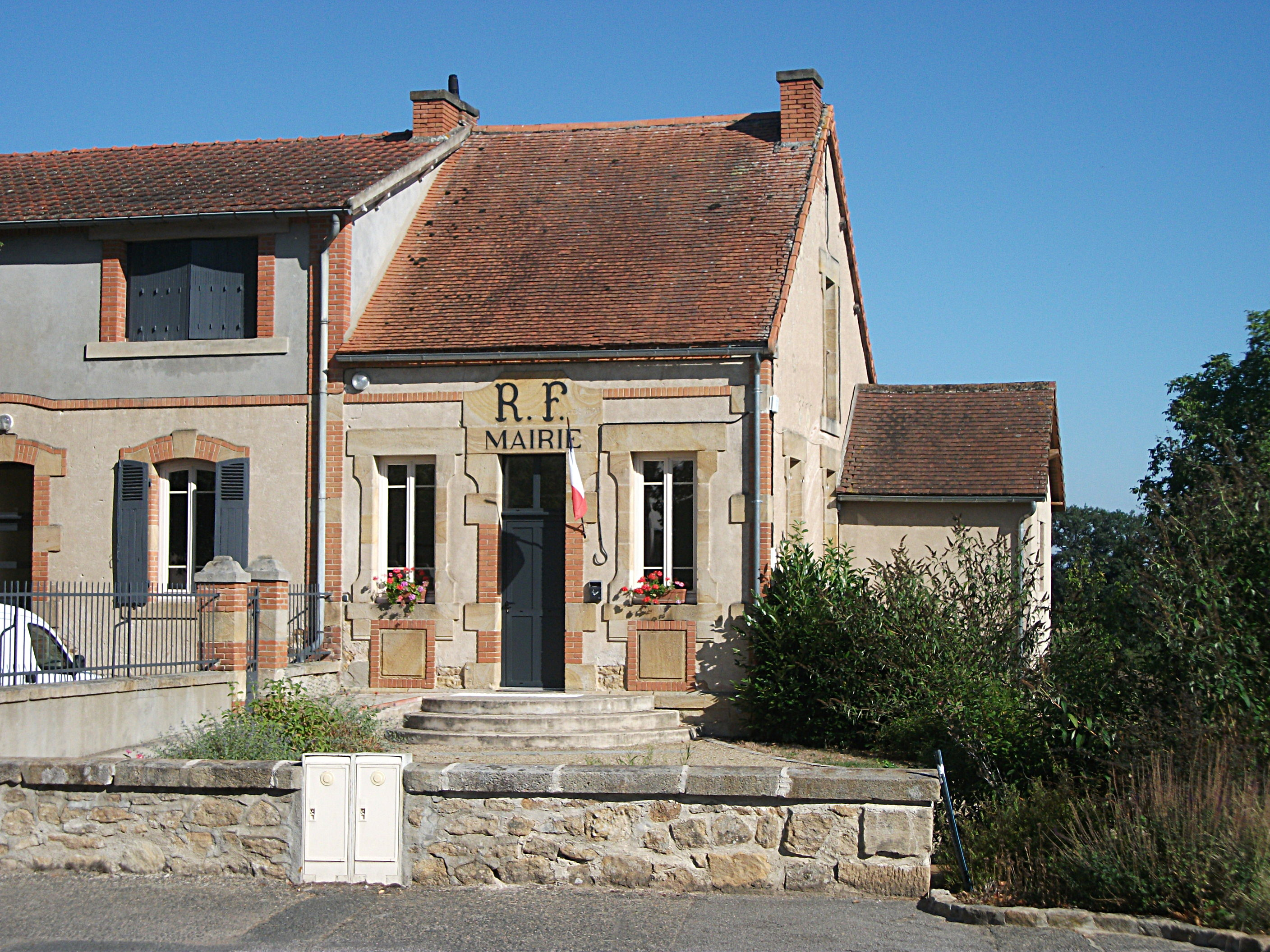 Town hall of Saint-Aubin-le-Monial, Allier, Auvergne-Rhône-Alpes, France. [16686]